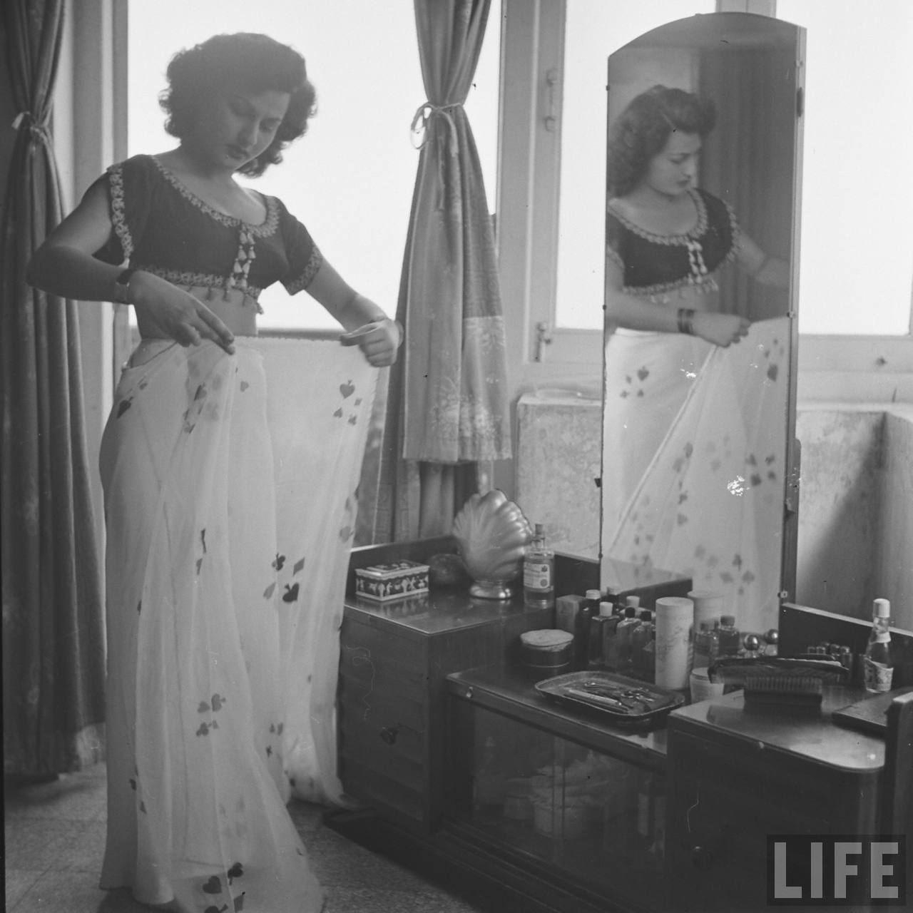 Hindi film actress Begum Para